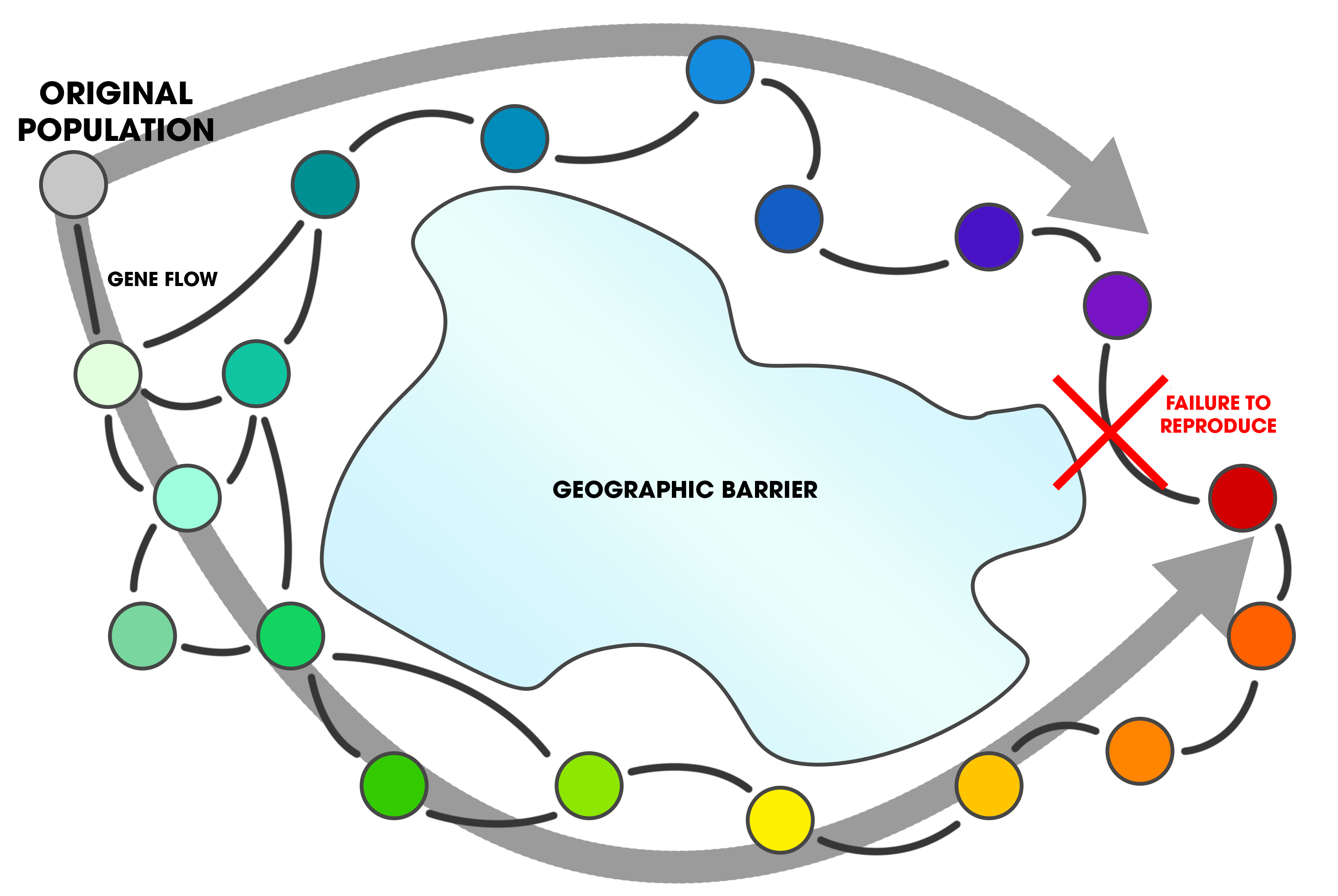 A schematic representing a ring species. Individuals are able to successfully reproduce (exchange genes) with members of their own species in adjacent populations. Individuals of the population, separated by a barrier, are unable to reproduce when they come into contact again. This process represents a form of speciation occurring with gene flow.